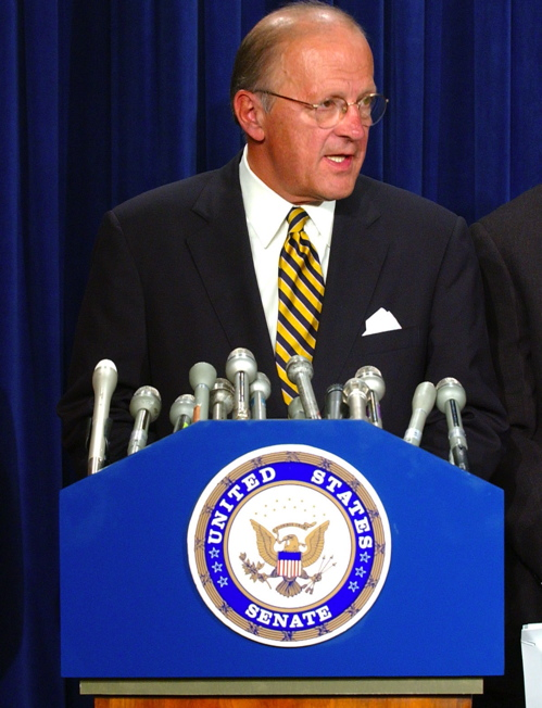 Rep. Sherwood Boehlert during a press conference press release with the photo SOURCE